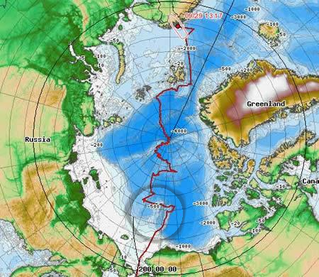 The red line marks the voyage of the icebreaker USCGC Healy (WAGB-20) during the 2005 trans-Arctic expedition. The circled area is the Chukchi Cap.